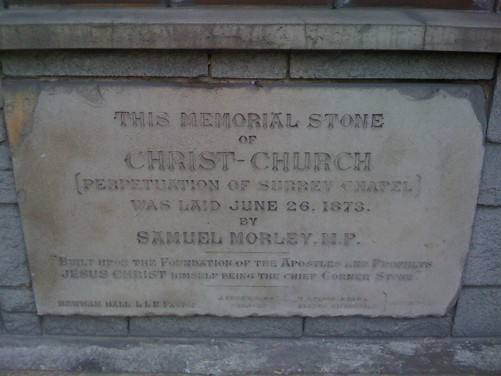 Foundation Stone of original 'Christ church' Lambeth in its new position at foot of Lincoln Tower